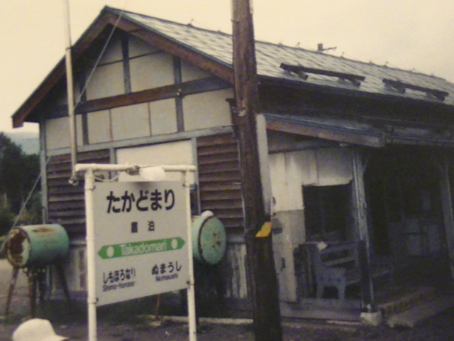 Shinmeisen Takadomari Station name sign